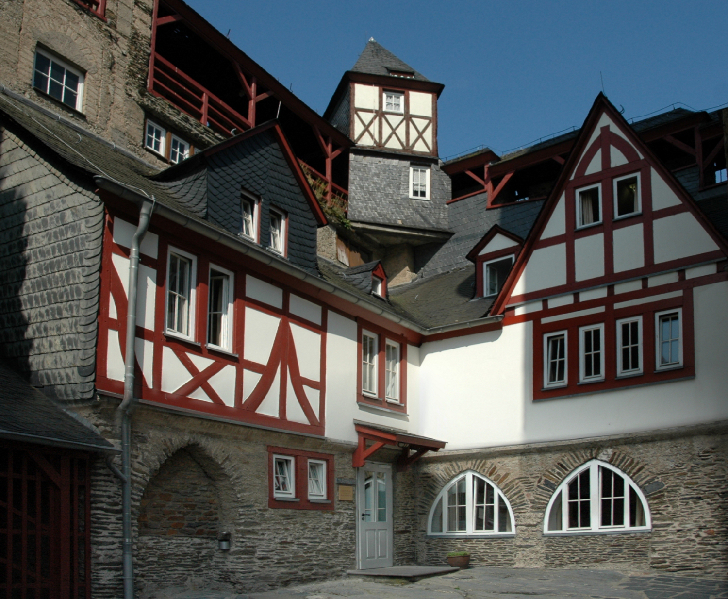 Stahleck Castle, former girls' hostel, so called Turmhaus